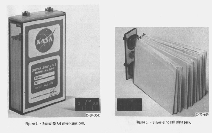 Sealed 40 AH silver-zink cell and silver-zink cell plate pack